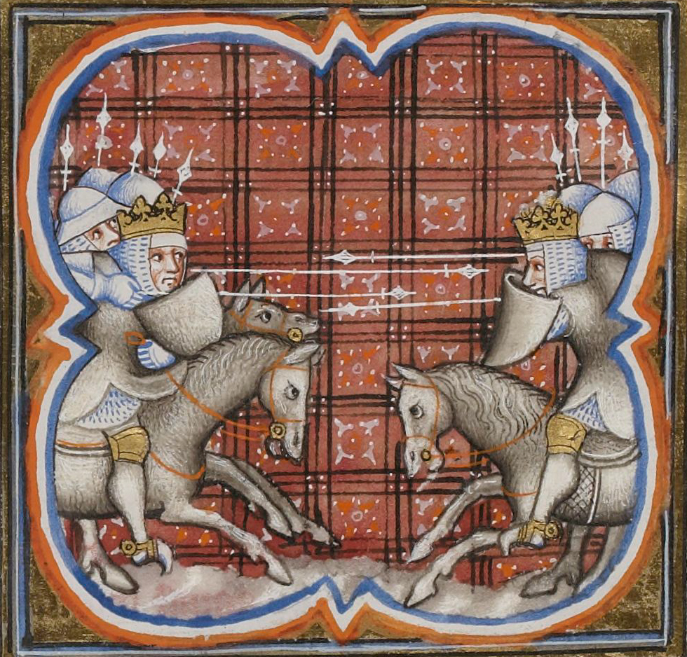 Battle of Benevento